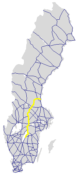 Map of Swedish riksväg (road) 50